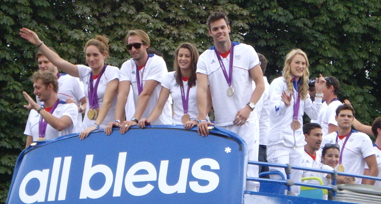 Members of the team of France at the 2012 Summer Olympics wearing their medals wave to the crowd from an open-top bus. The bus from the Gare du Nord was arriving at a reception at the adidas flagship store at rond-point des Champs-Élysées. Adidas was the official clothing sponsor of the French Olympic team and used the slogan "all bleus". Pictured, from left to right (swimmers unless stated): Amaury Leveaux Clément Lefert Camille Muffat Fabien Gilot Charlotte Bonnet Grégory Mallet Marlène Harnois ? ? Florent Manaudou